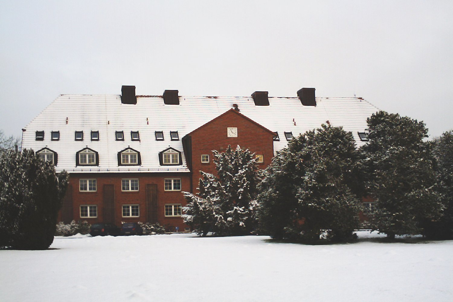 Campus of the Biomedical Research Complex in Karlsburg near Greifswald, Germany; House C: Institute of Pathophysiology and Institute of Physiology of the Ernst-Moritz-Arndt-University of Greifswald; Image created by uploader